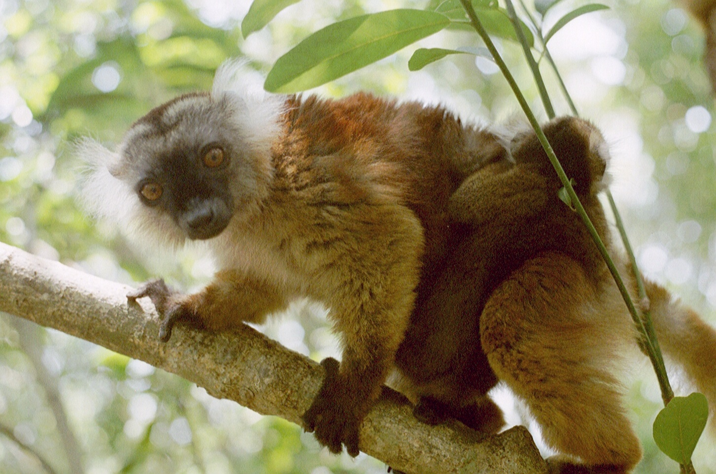 A photo of a female black lemur and her offspring taken by myself at the Lokobe nature reserve in Nosy Be in November 2001.